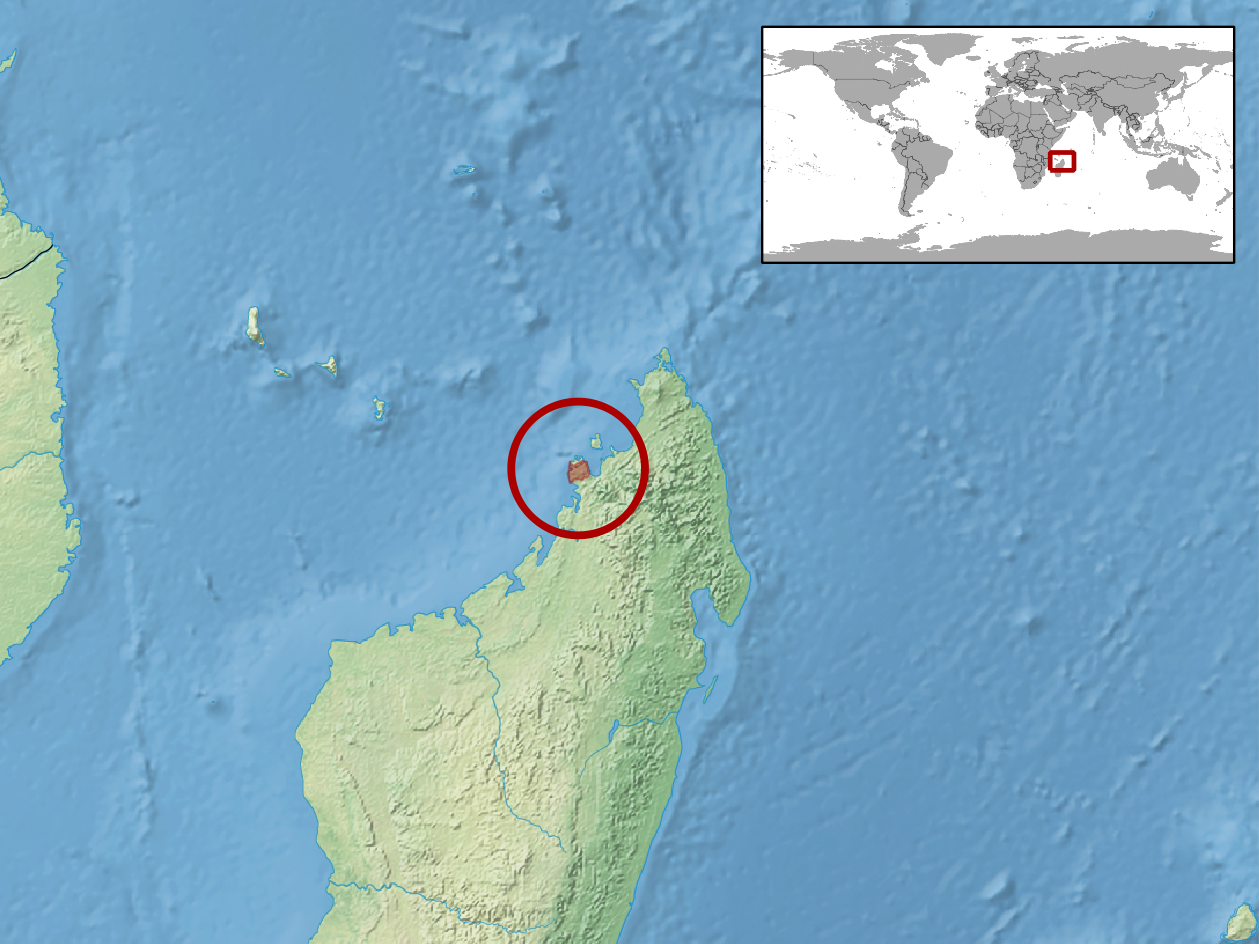 geographic distribution of Phelsuma vanheygeni (Native: Madagascar)